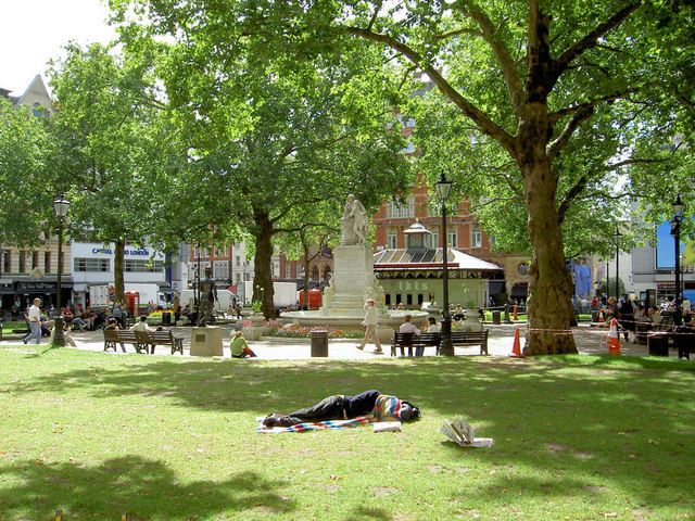 11am and still asleep. Leicester Square.